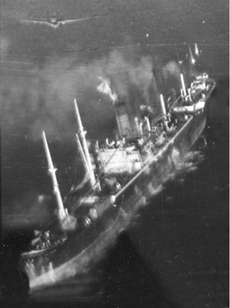 The German freighter La Plata being strafed by a U.S. Navy Grumman F4F-4 Wildcat piloted by Lt(jg) William W. Taylor of Fighting Squadron 4 (VF-4) off Bodø, Norway, during "Operation Leader" on 4 October 1943. A second F4F is visible in the upper part of the photo. La Plata was hit by 3 bombs during two attacks and was later beached.